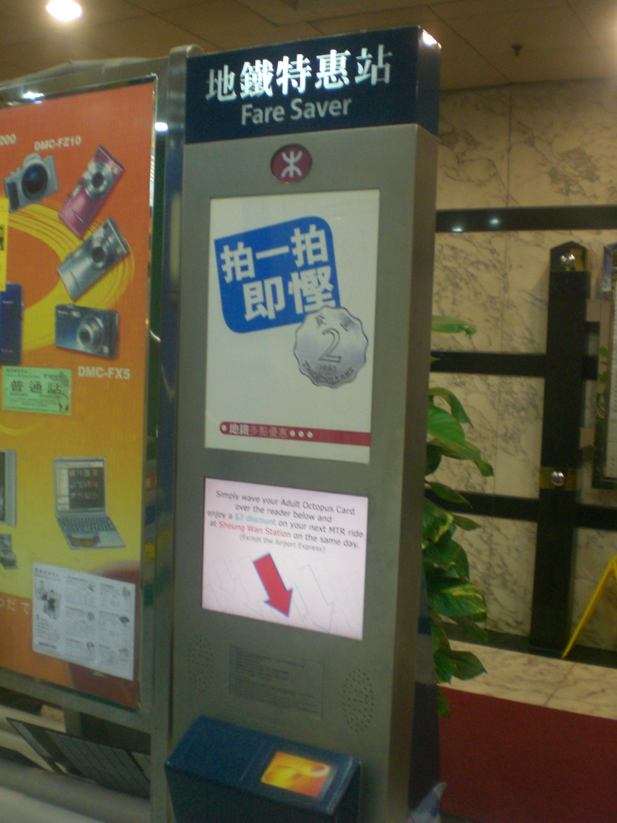 MTR Fare Saver